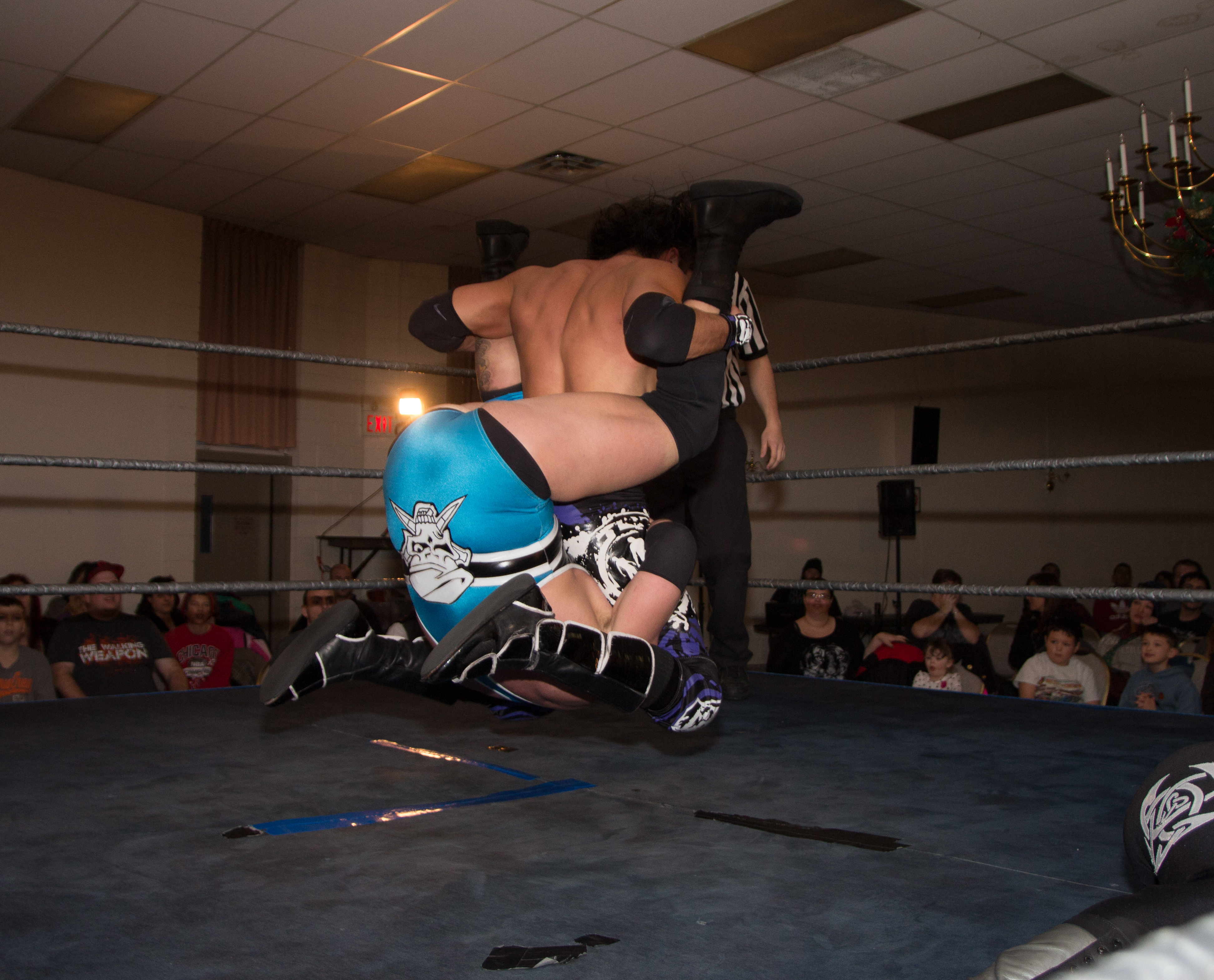 Trent Barreta at Alpha-1 Wrestling's Watch the Throne 2 show